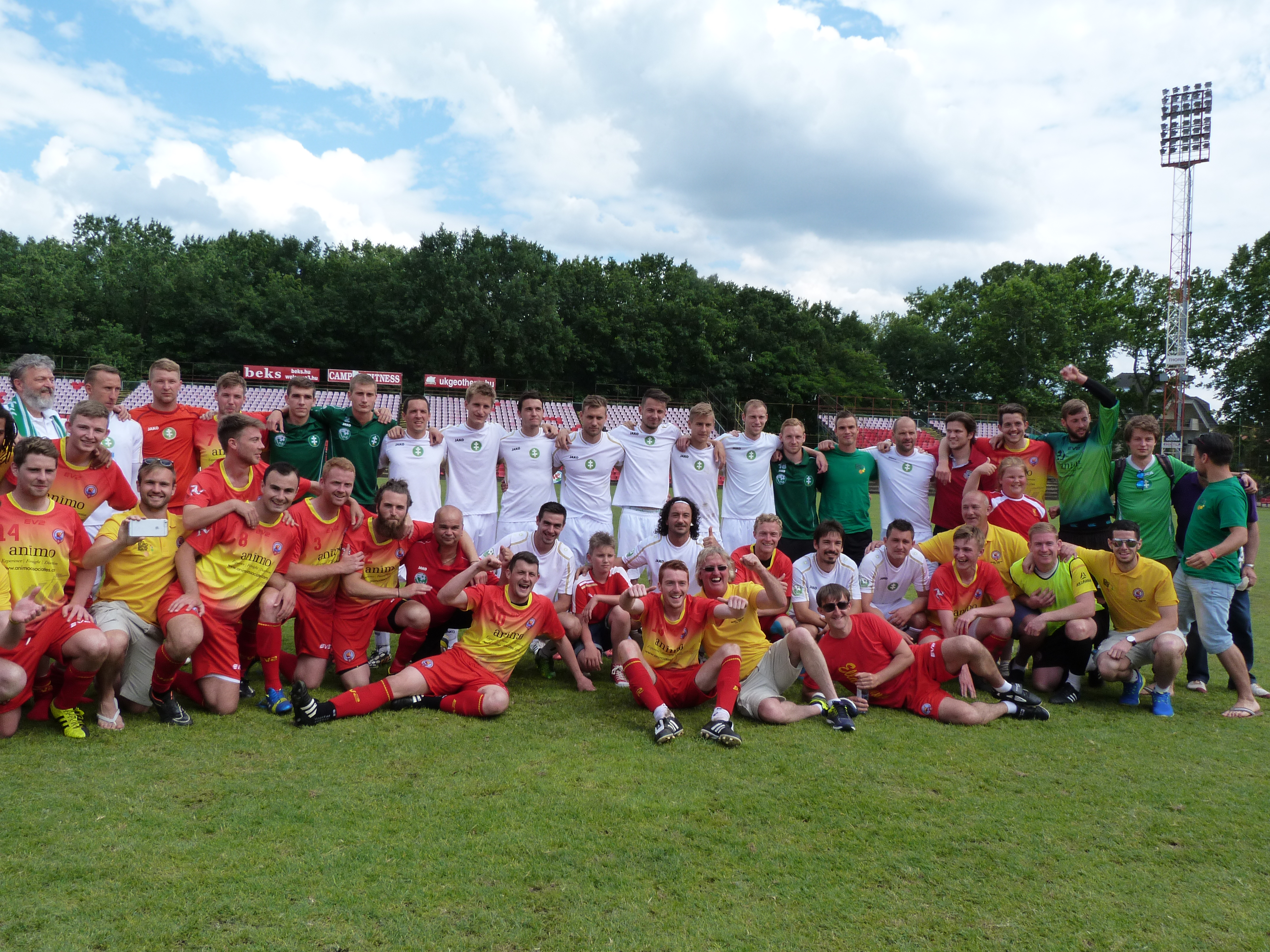 Live in Debrecen, Hungary. 21st of June, 2015. Europe Cup - Confederation of Independent Football Associations, ConIFA. Ellan Vannin - Felvidék. ©© Derzsi Elekes Andor, Budapest, 2015, Published in the Metapolisz DVD line. You are authorised to use this photo under Creative Commons – even for commercial, for profit purposes. The photo must be attributed to Derzsi Elekes Andor. All of the photos and vids in the Metapolisz DVD line are under Creative Commons and can be used even for commercial – for profit – purposes. Recommended Citation Derzsi Elekes Andor: Metapolisz DVD line